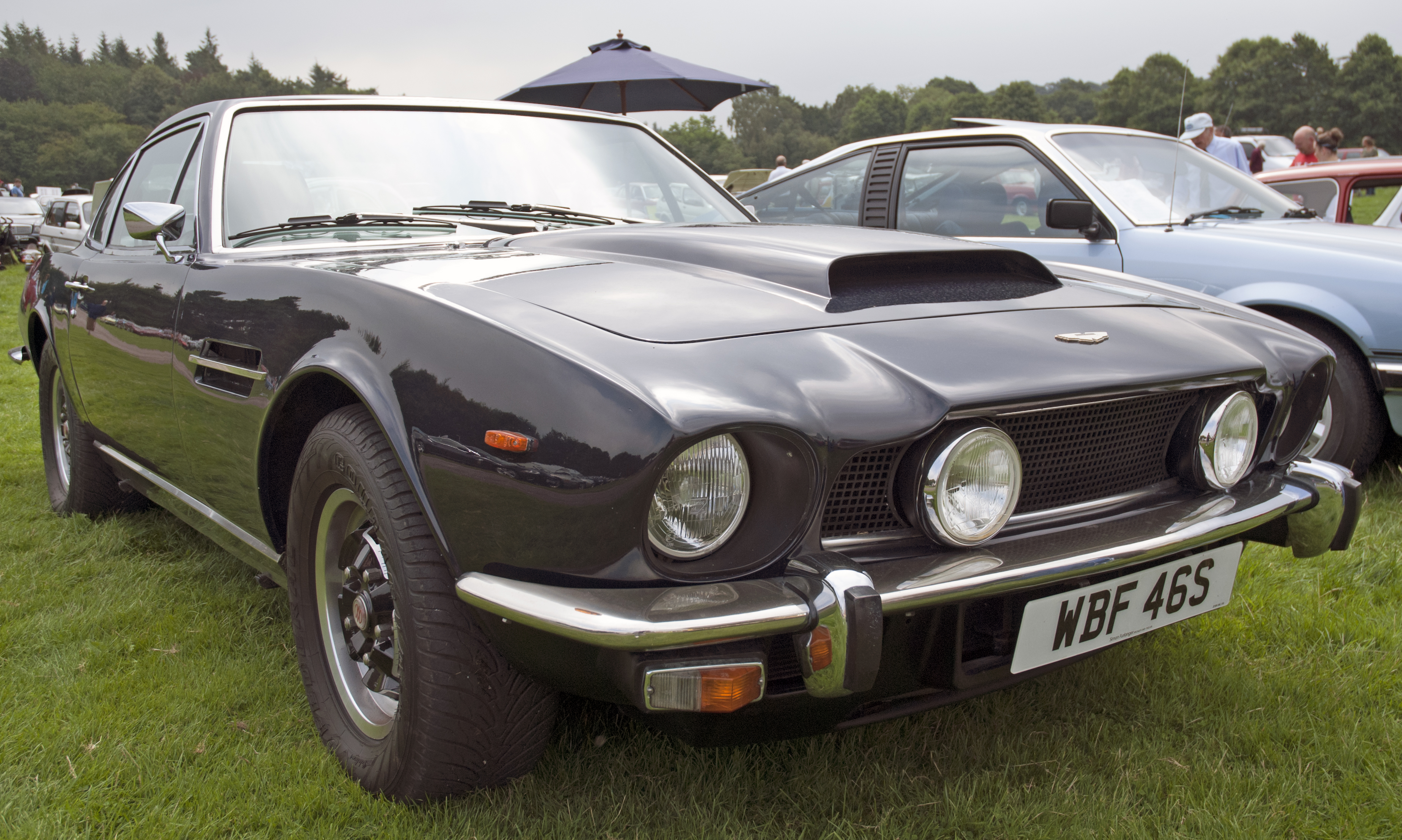 1977 (first reg 1 Nov 1977) Aston Martin V8 Saloon Series 3 at Capesthorne Hall, August 2013